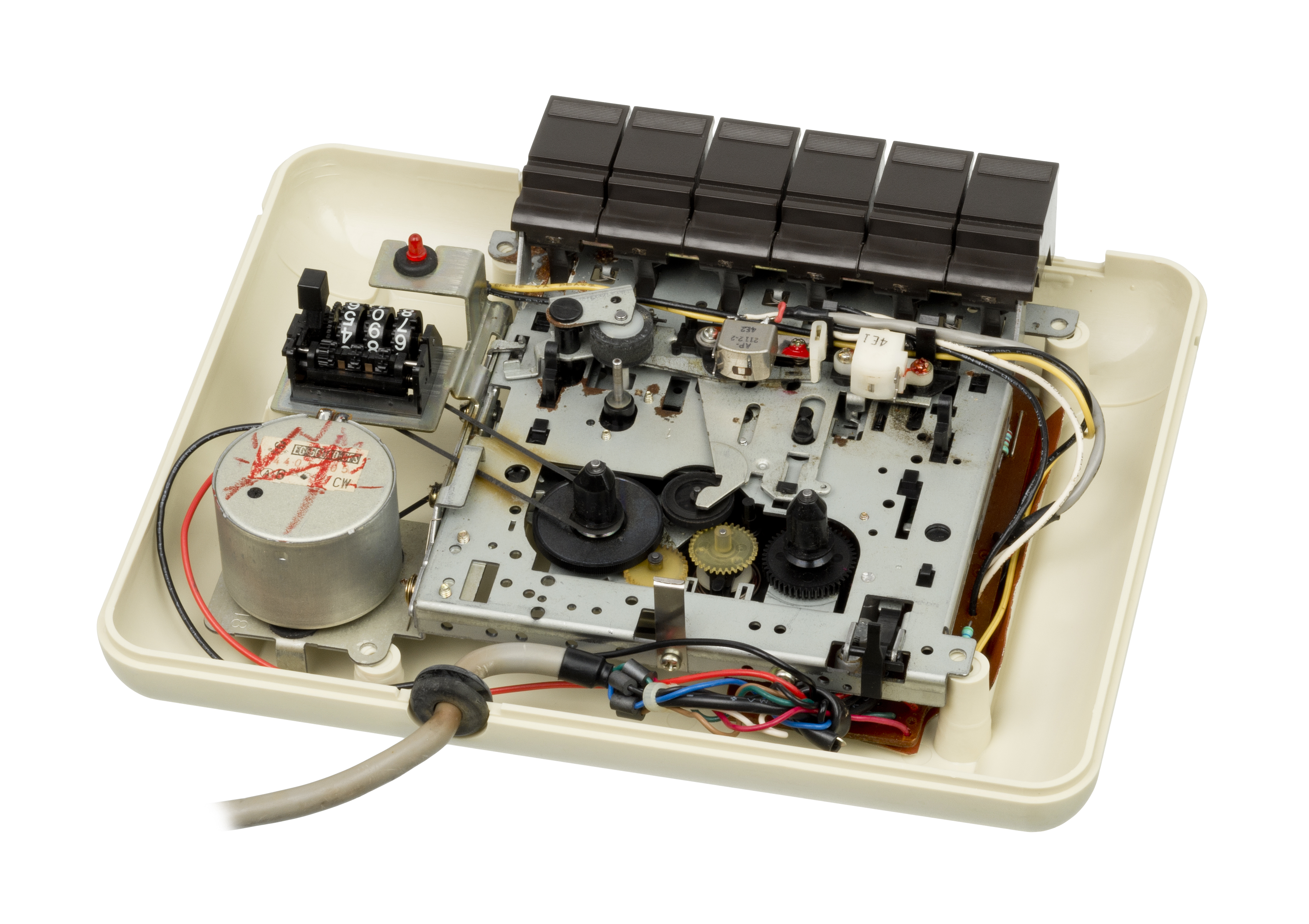 A Commodore 1530 (C2N) Datasette drive for the Commodore line of computers, shown with the top casing removed. This made it possible to save and run programs from inexpensive cassette tapes.